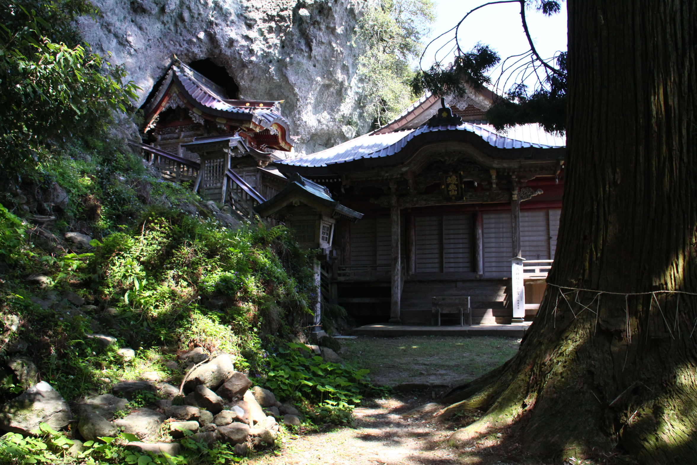 Precincts of Takuhi jinja